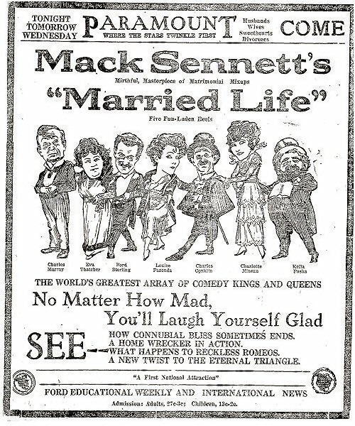 The Mack Sennett comedy film Married Life (1920) advertisement, Kalla Pasha far right. Charlie Chaplin was not in this film, the figure identified as him is most likely Ben Turpin.